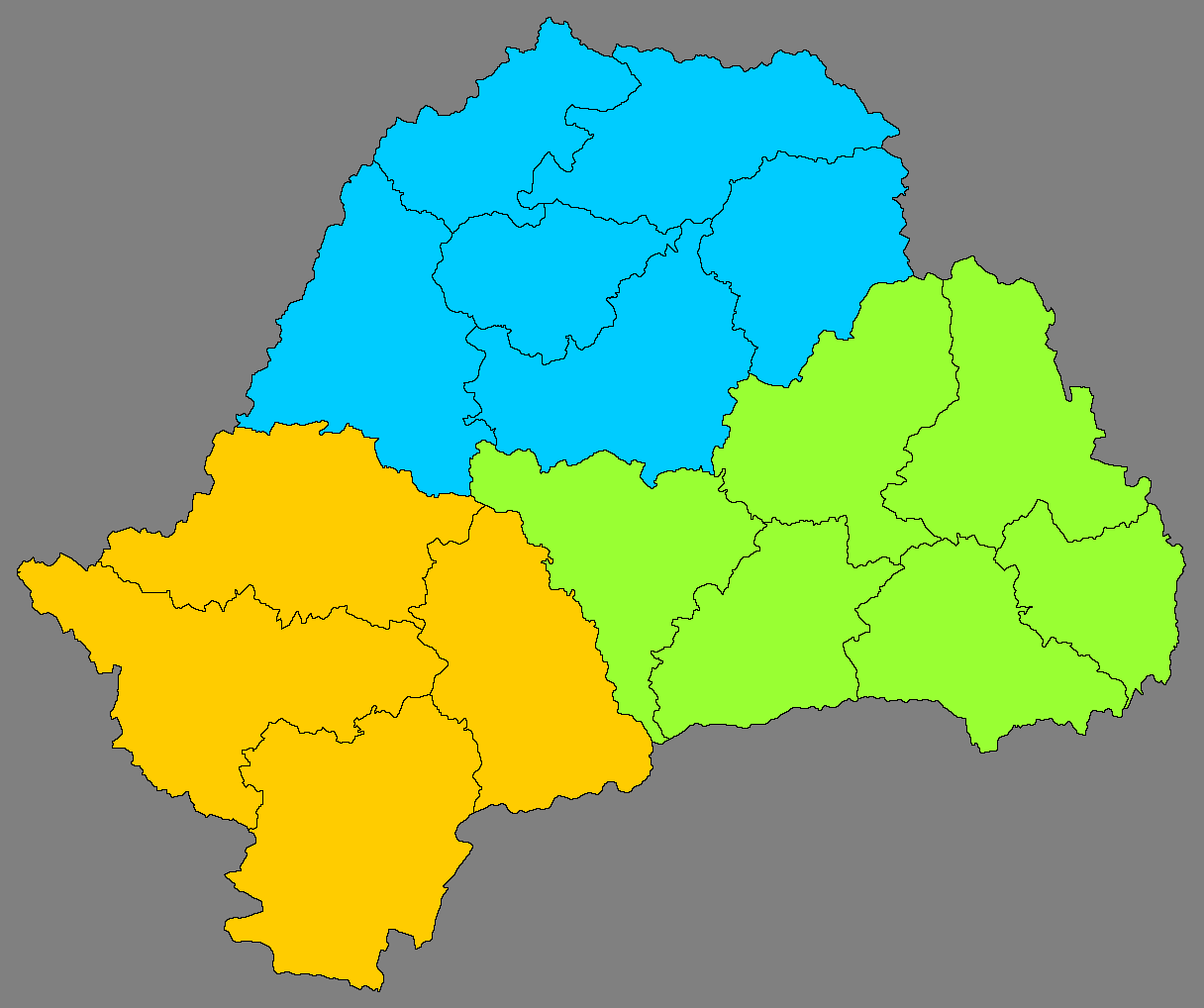 NUTS-II regions in Transylvania, Romania